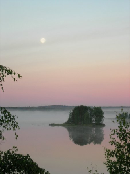 Lake Nurmesjärvi in Kuhmo, Finland